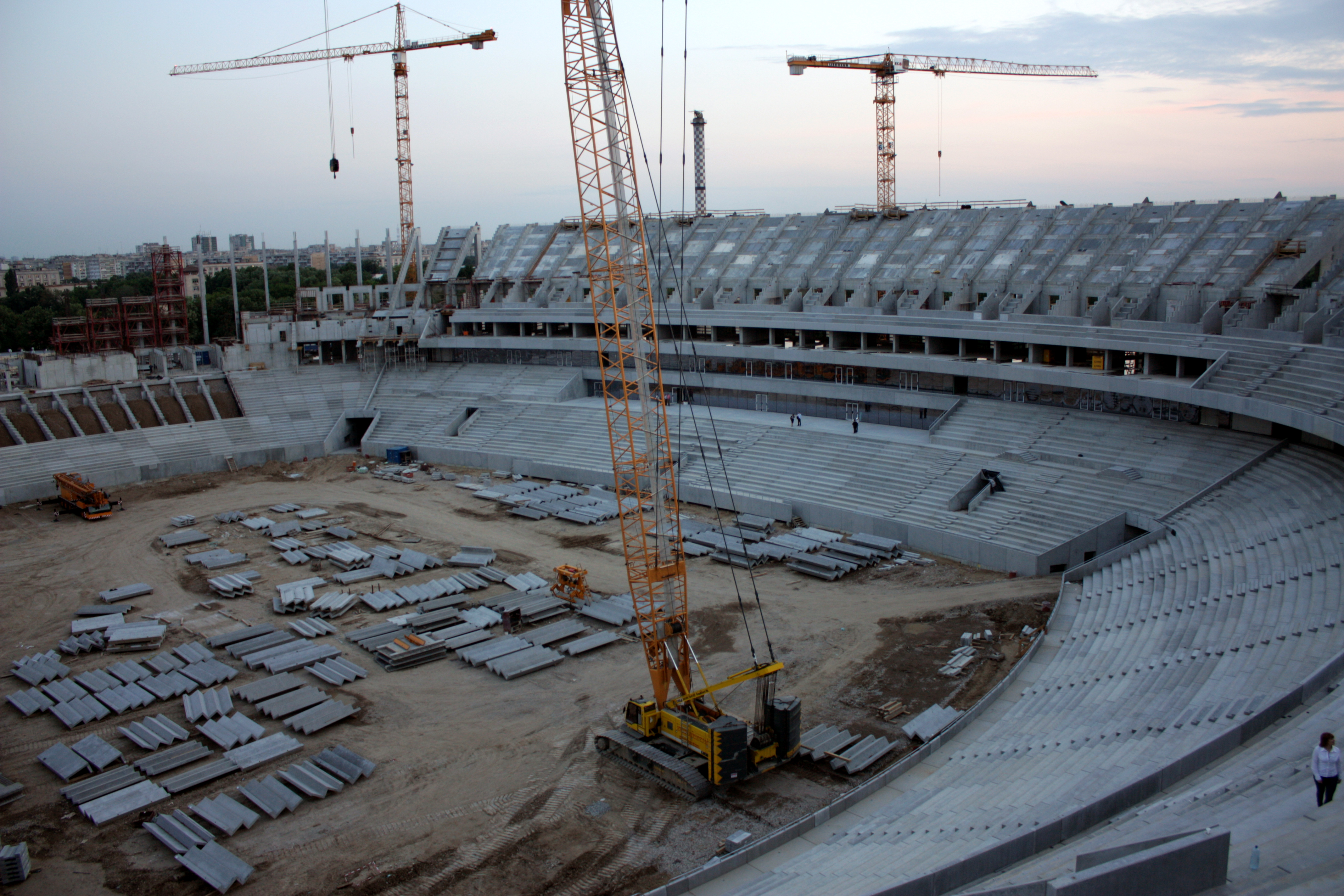 New National Stadium "Lia Manoliu" in Bucharest under construction.